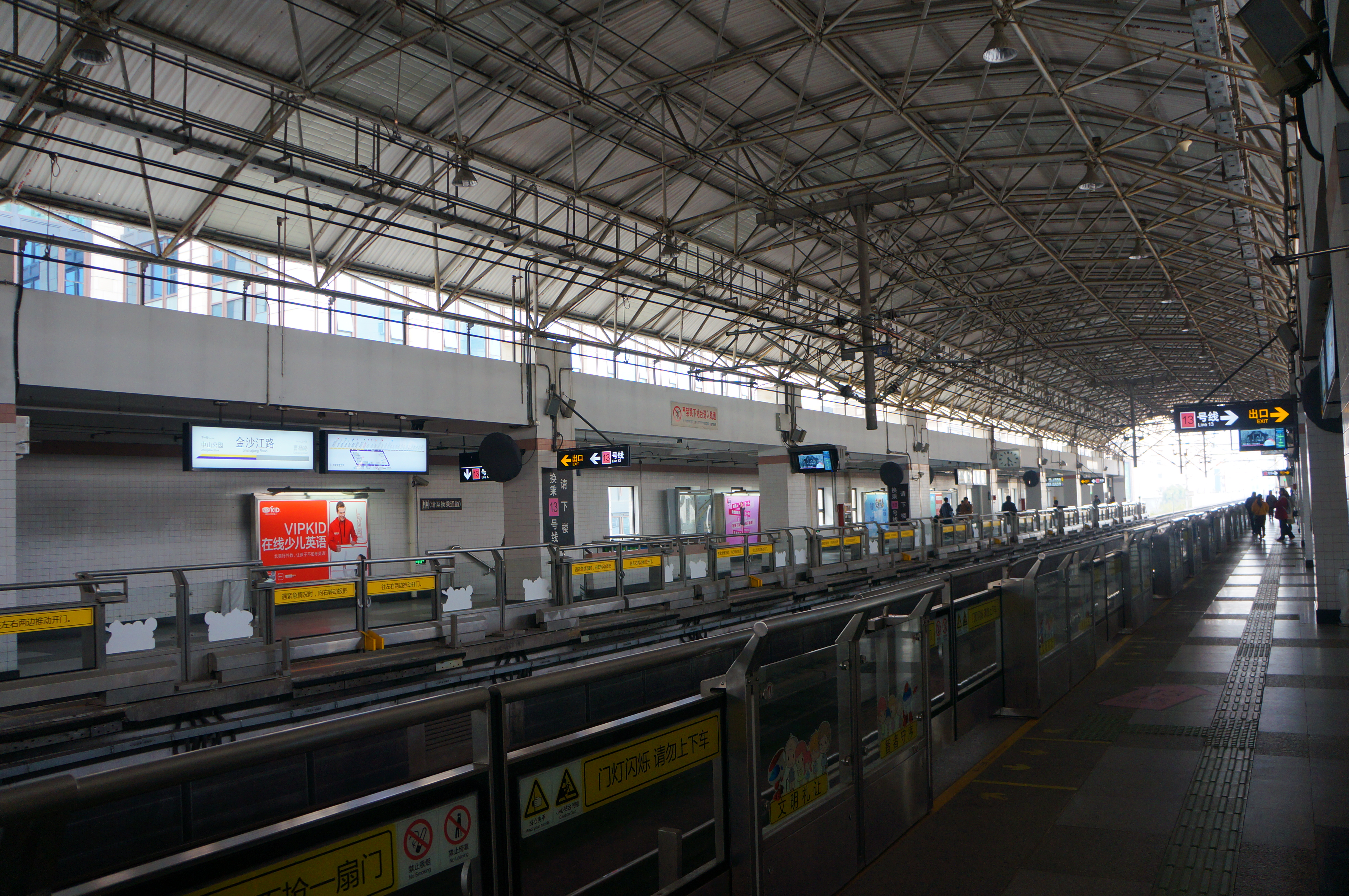 201703 Platform for L3, 4 of Jinshajiang Road Station